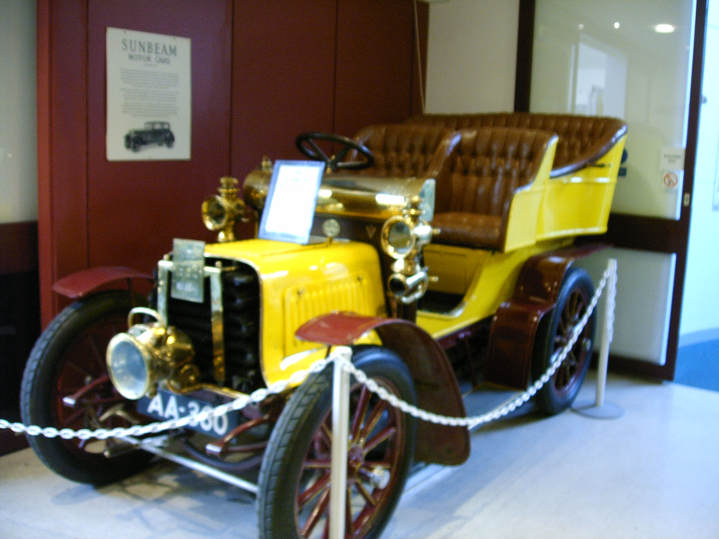 Sunbeam motor car on display in the Black Country Living Museum. DVLA = manufactured 1903 1479cc